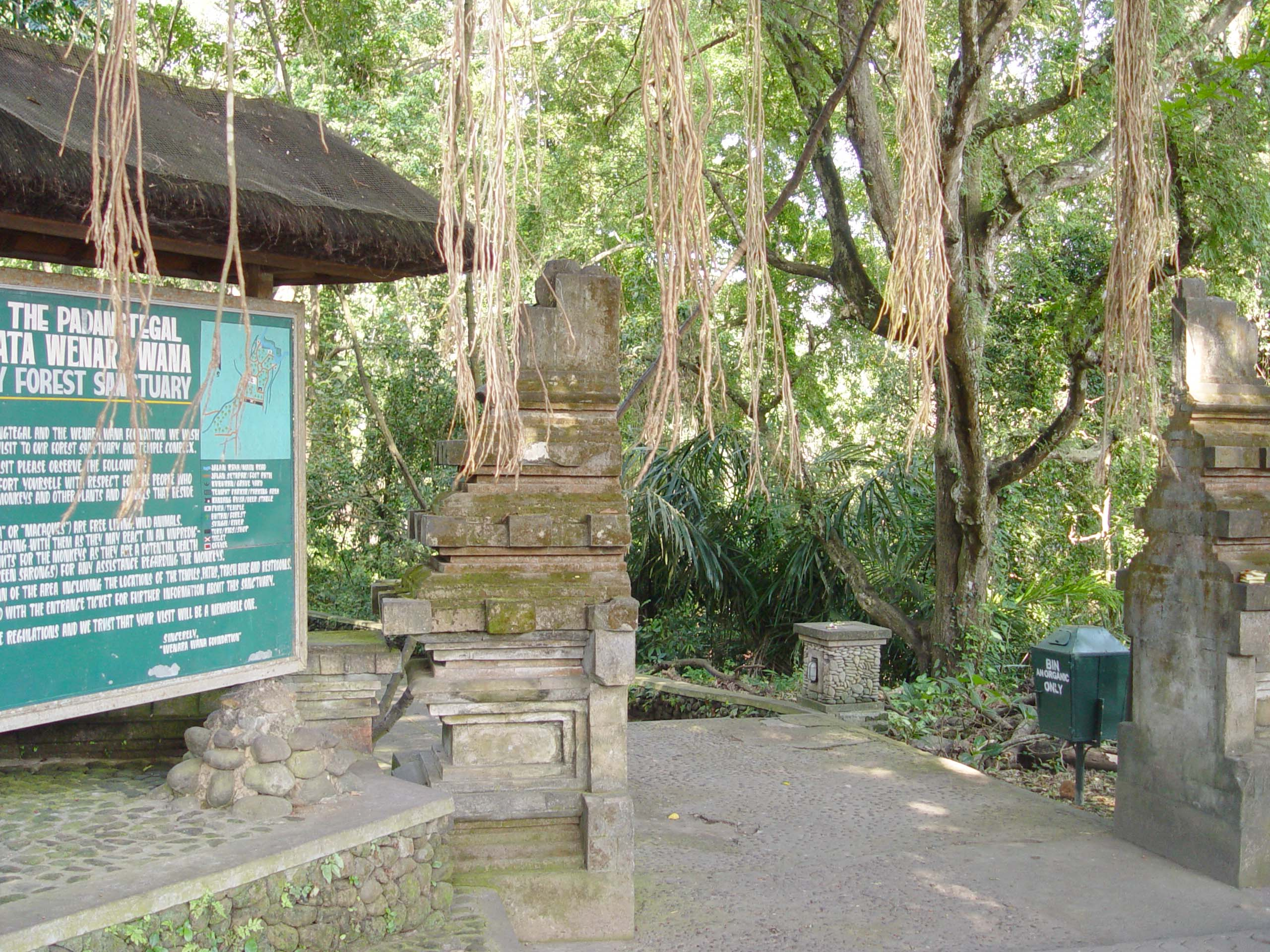 Monkey Forest, Ubud, Gianyar, Bali, Indonesia. July, 2005.